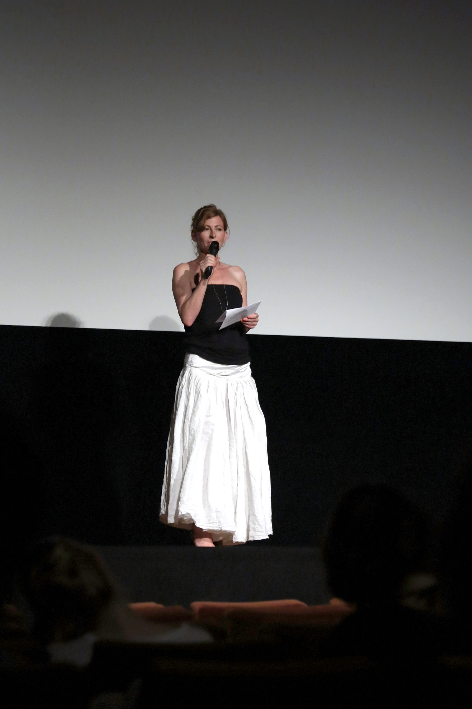 Actress Tatjana Alexander hosting the final evening of the film festival Vienna Independent Shorts 2014 at Stadtkino at Vienna Künstlerhaus (Vienna, Austria).